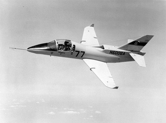 The Gulfstream Peregrine 600 prototype, N600GA, in flight.